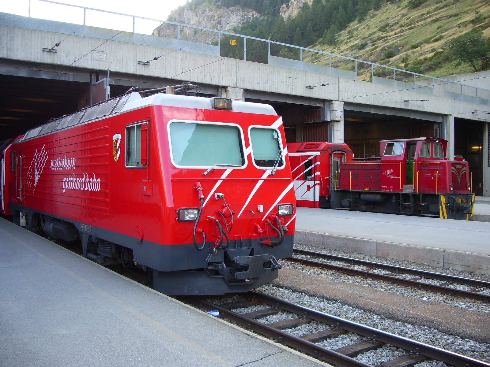 MGB HGe 4/4 II No. 102 and Tm 74 in Zermatt, August 2 2006. Created and uploaded by Philipp Groß.